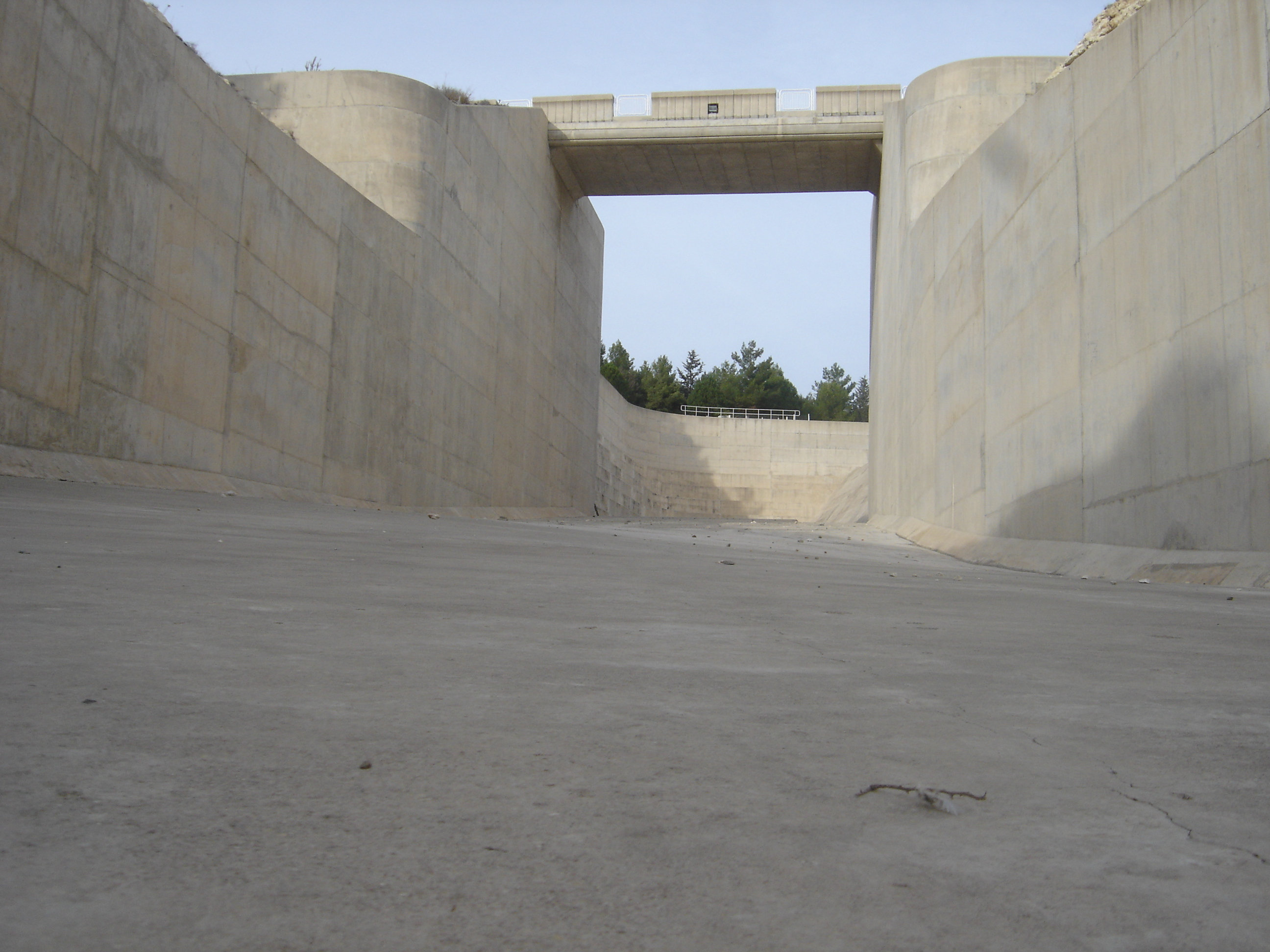 Spill way of Asprokremmos dam in Paphos, Cyprus. Photo taken at December 2005